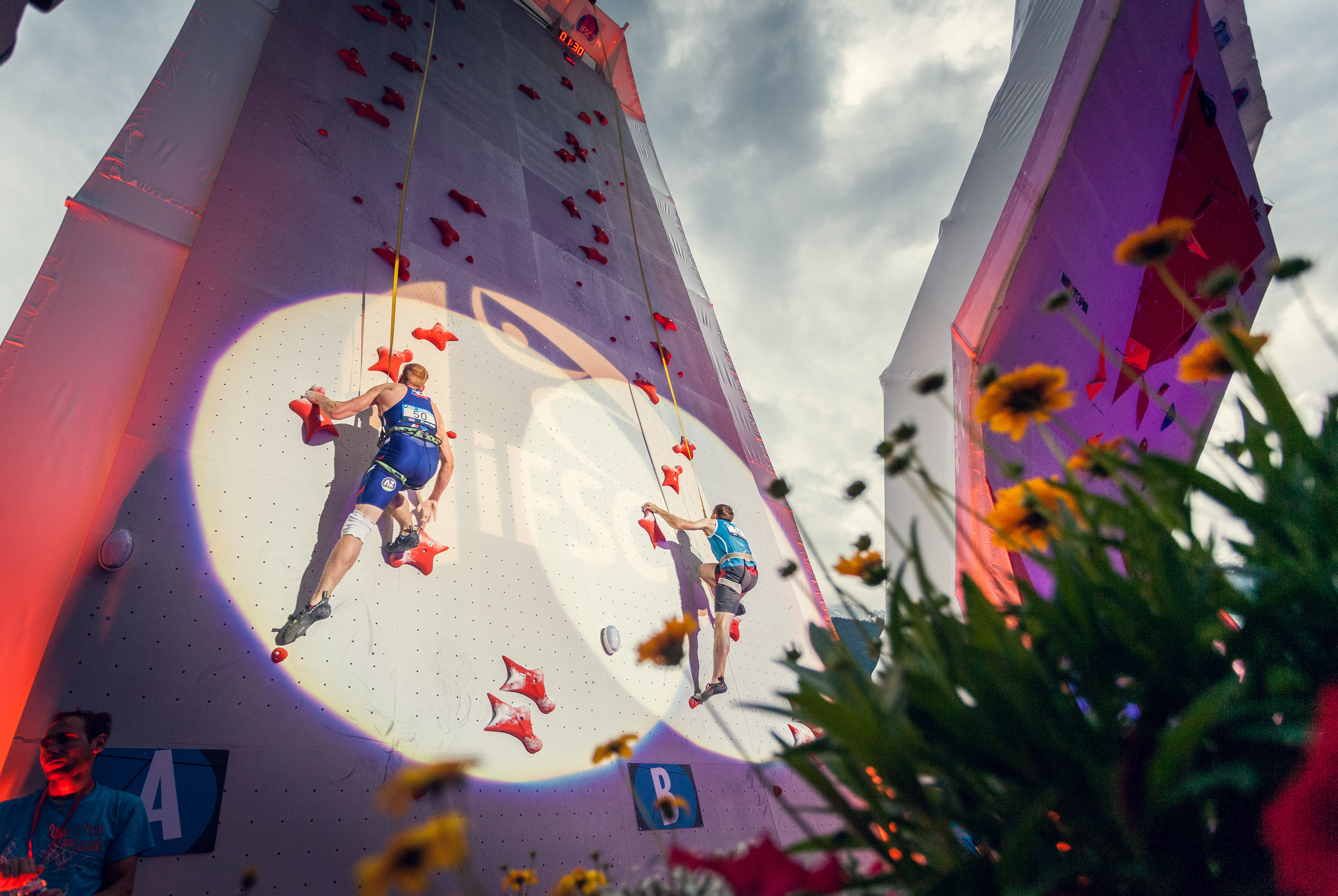 Jan Kriz at Chamonix 2016